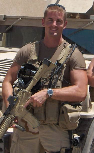 A picture of Tommy Sowers on deployment.